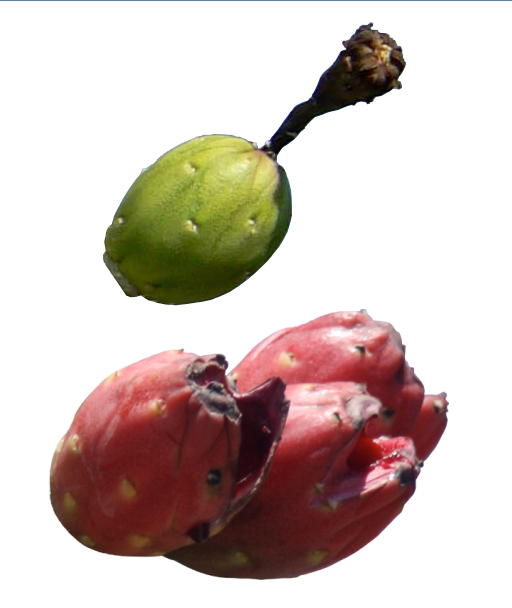 Fruit of Carnegiea gigantea